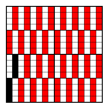 Weave pattern of ribbed fabric.